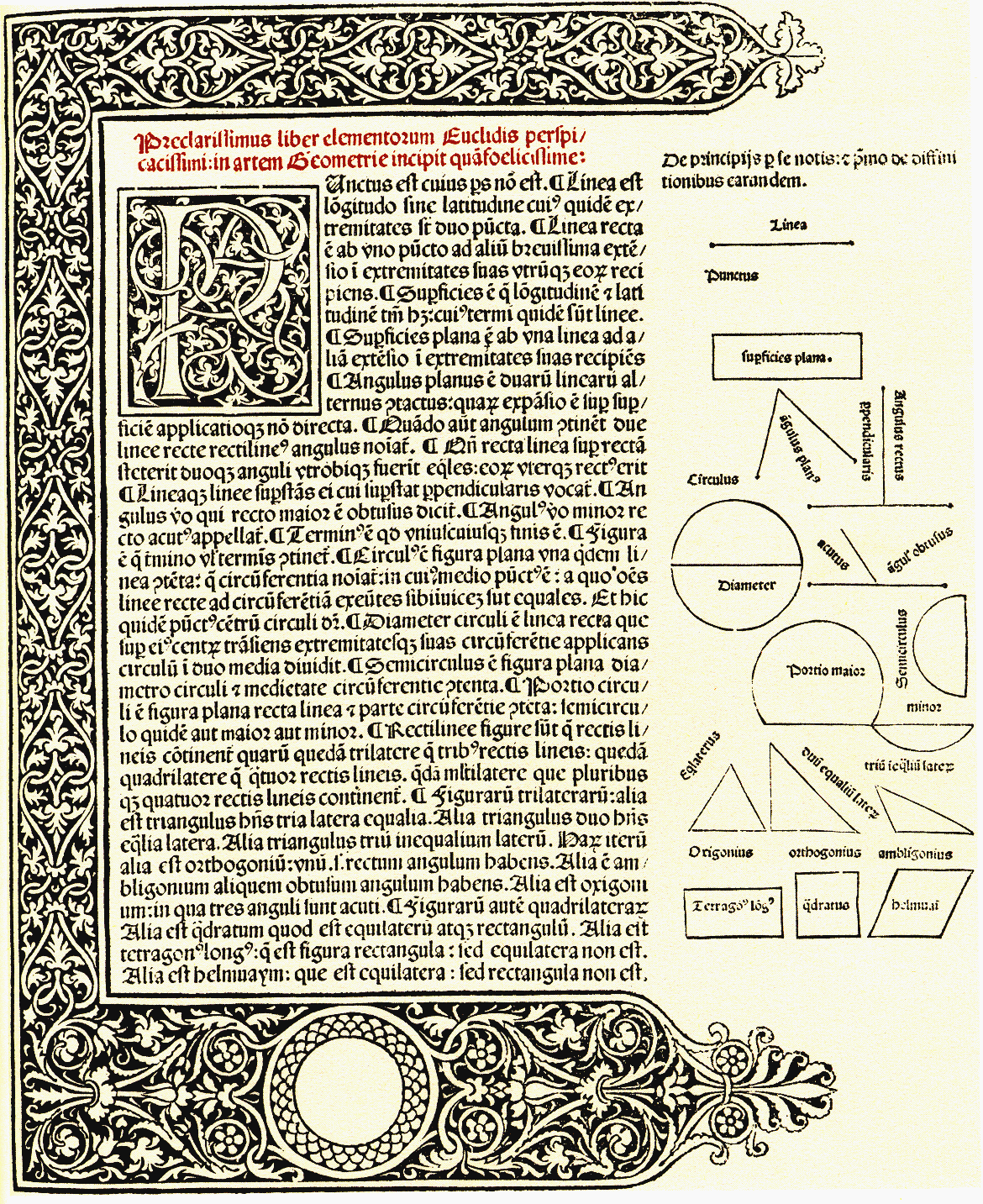 The first page of Euclid's Elements from the Latin edition by Campanus of Novara. Published by Erhard Ratdolt in 1482. See also From Euclid to Newton